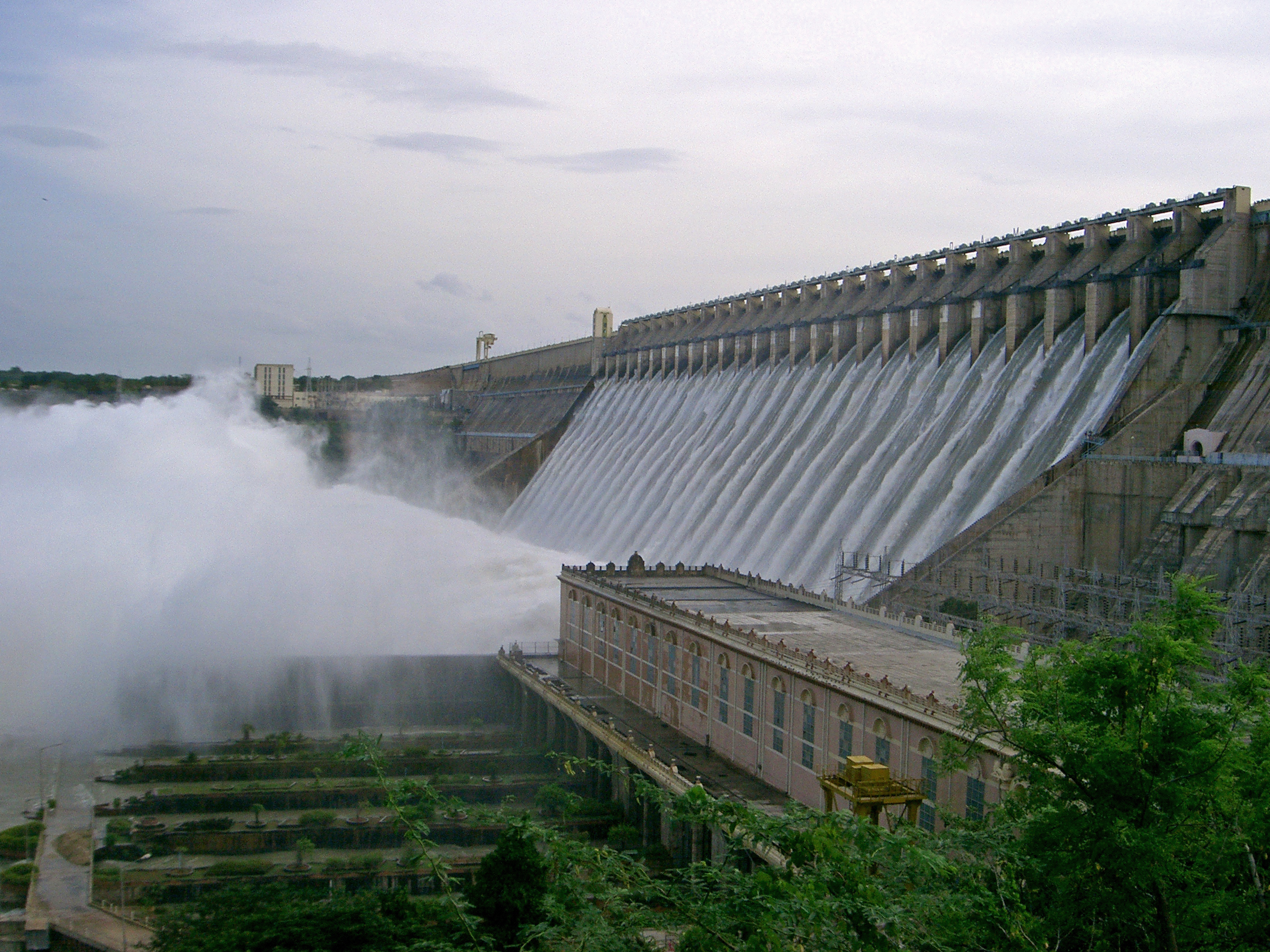 Author: Sumanth Source: Picture taken with my digital camera on 13-08-2006